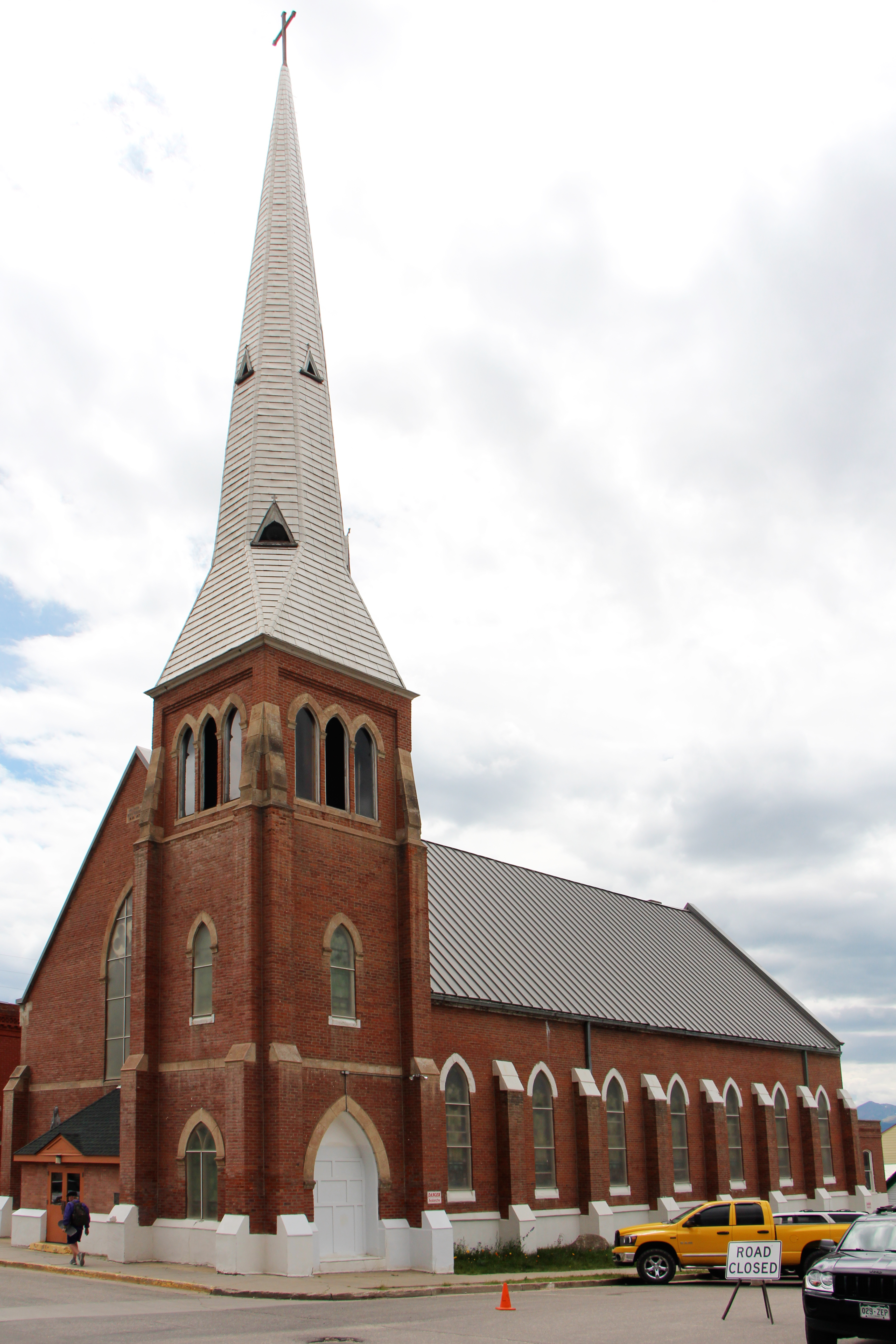 Annunciation Church, 609 Poplar St., Leadville, CO